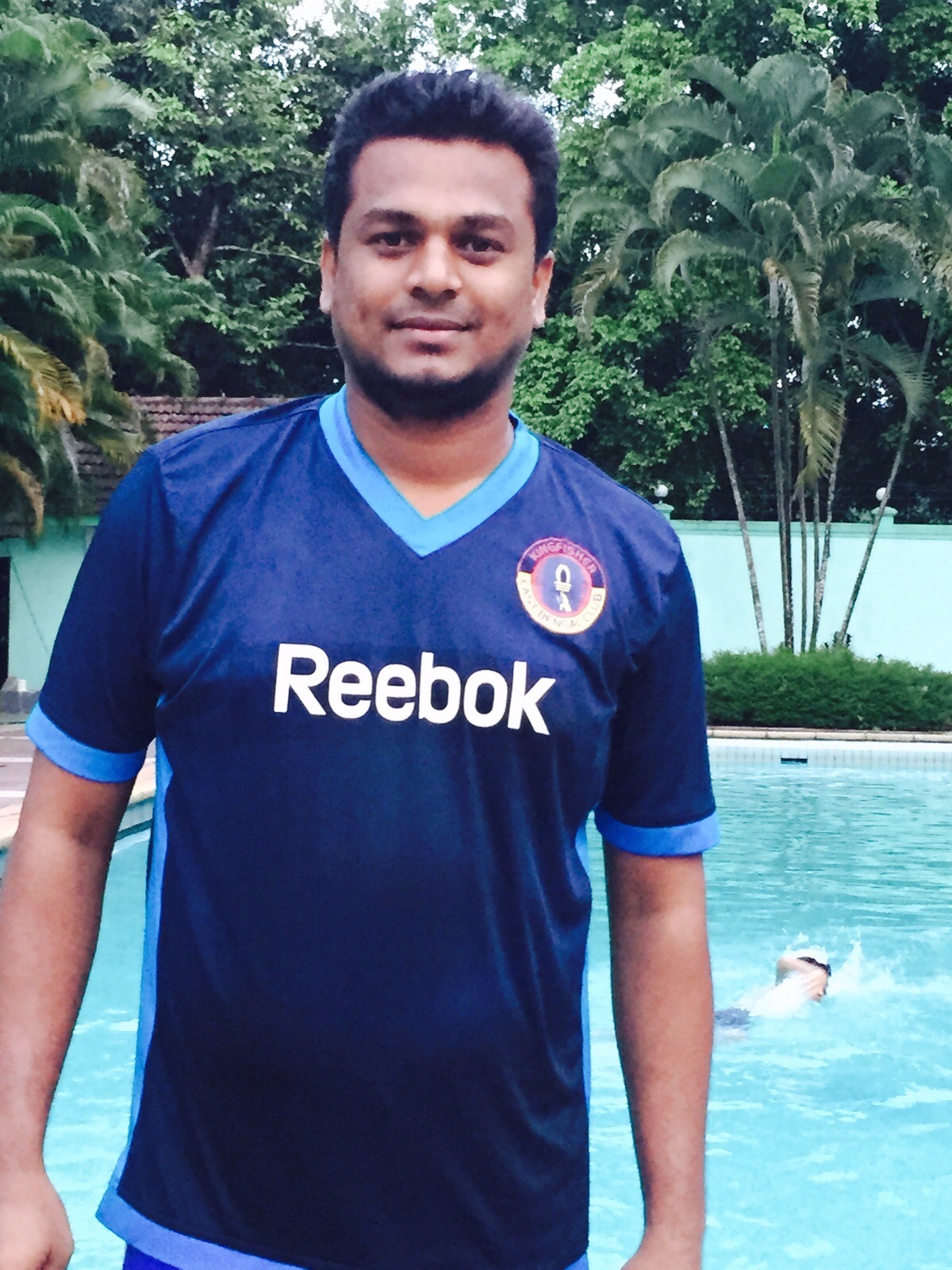 This is the photo of football coach Shameel Chembakath taken in 2015 while he was at Peeves International School